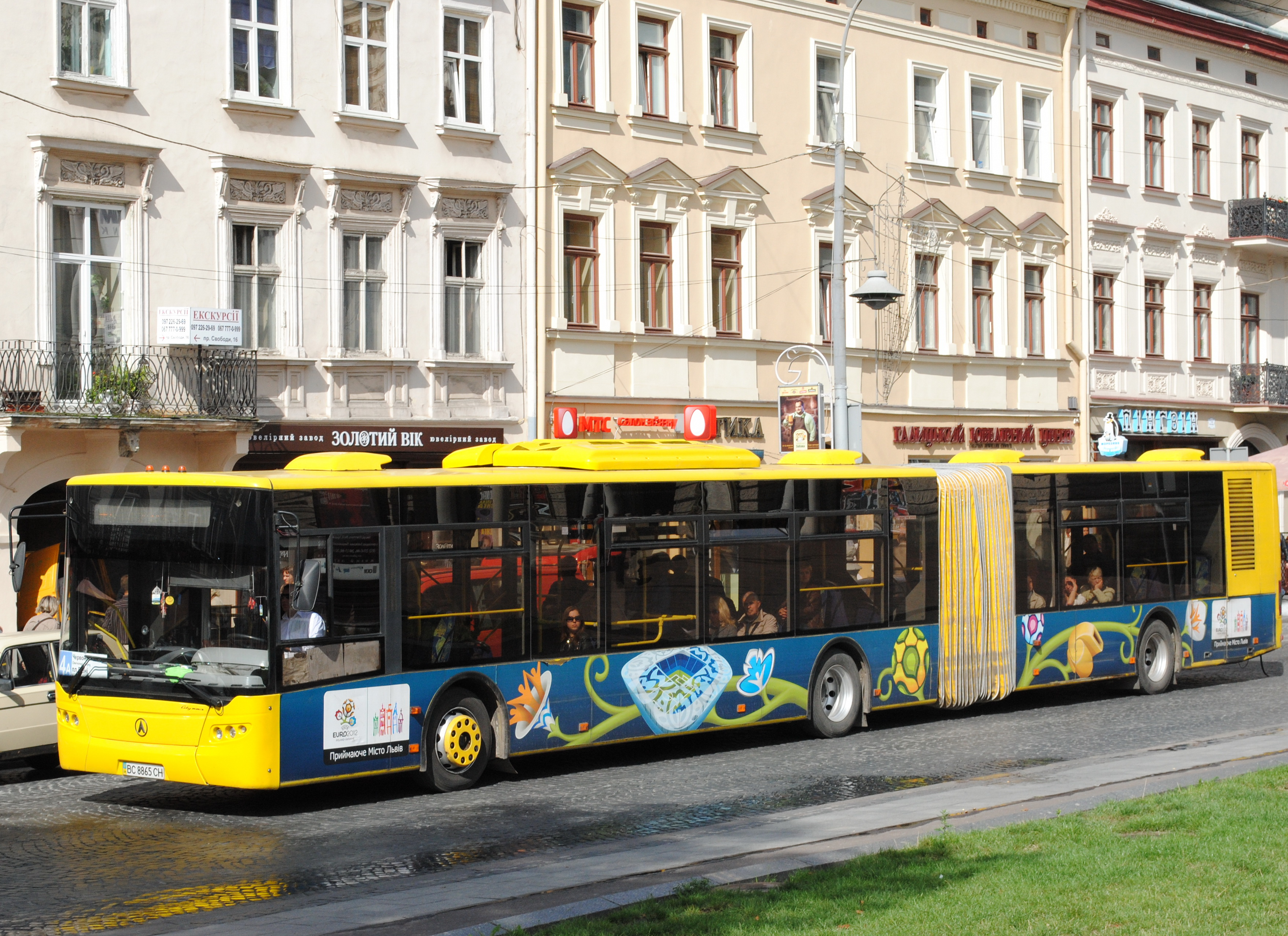 CityLAZ-20 moving on Liberty Avenue in Lviv.